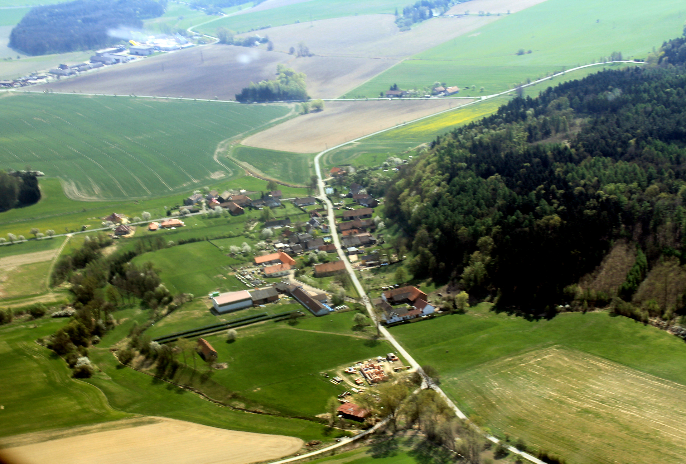 Village Litohrady part of town Rychnov nad Kněžnou from air, eastern Bohemia, Czech Republic